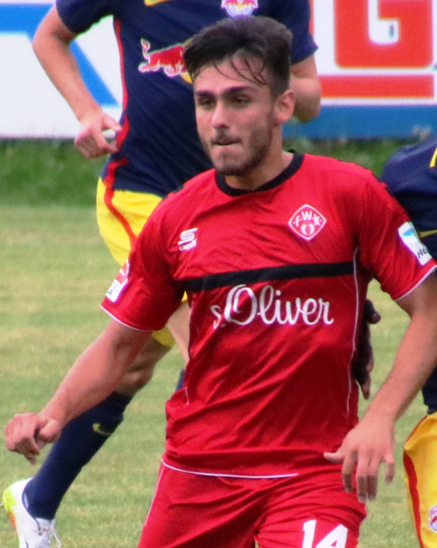 friendly match preseason